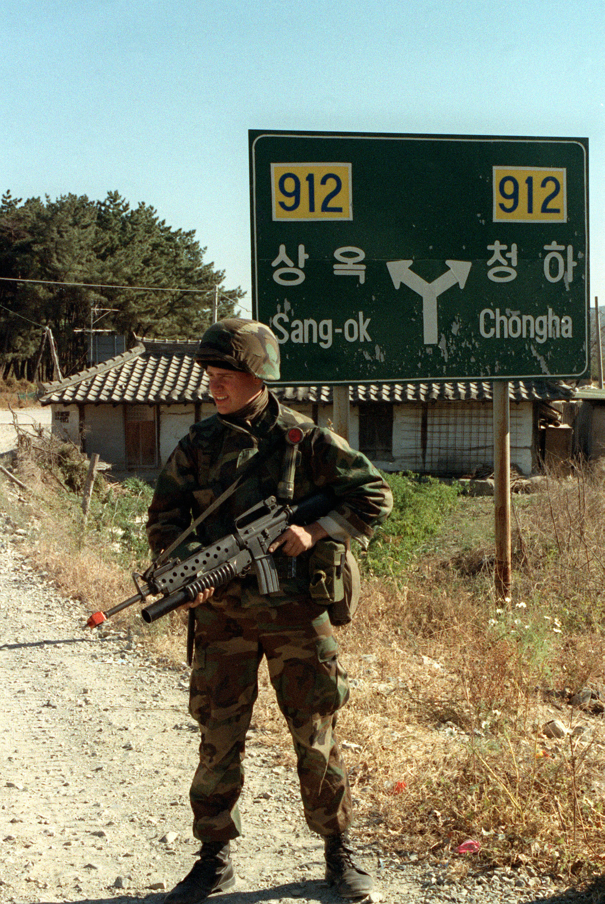 The original finding aid described this photograph as: Subject Operation/Series: VALIANT BLITZ '89 Country: Republic Of Korea (KOR) Scene Camera Operator: SSGT R.L. Jaggario Release Status: Released to Public